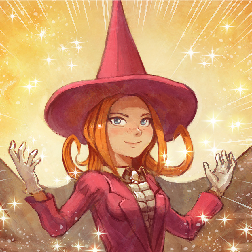 Secondary character in webcomic series Pepper&Carrot